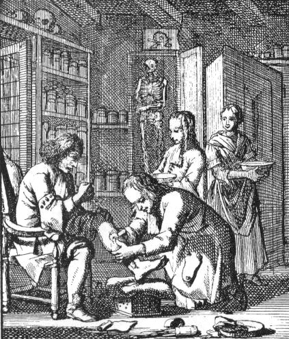 Image of a surgeon in 17th century Holland (c.1690)